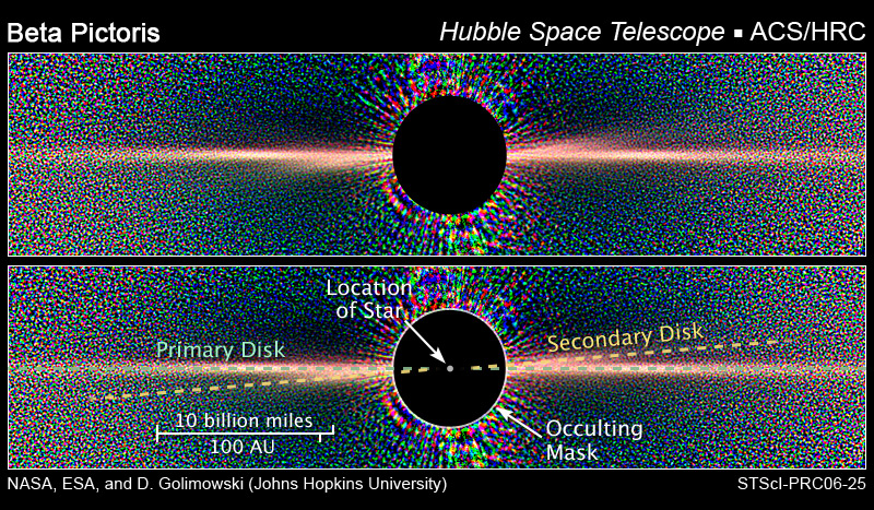 Hubble Sees Two Dust Disks Around Beta Pictoris This Hubble Space Telescope view of Beta Pictoris clearly shows a primary dust disk and a much fainter secondary dust disk. The secondary disk extends at least 24 billion miles from the star and is tilted roughly 4 to 5 degrees from the primary disk. The secondary disk is circumstantial evidence for the existence of a planet in a similarly inclined orbit. The planet may have indirectly formed the secondary disk by sweeping up smaller planetesimals – chunks of rock and/or ice – from the main disk. The planetesimals then collide, producing the dust seen in the disk. The image, taken with the Advanced Camera for Surveys (ACS), is the sharpest visible-light view of the disks around Beta Pictoris. Astronomers used the Advanced Camera's coronagraph to block out the light from the bright star. The black circle in the center of the image marks the coronagraphic mask. The colorful spike-like features and the speckled background are artifacts of the image processing which removed the residual starlight. The color image reveals that the disk is slightly red. The disk appeared gray in previous images taken by ground-based telescopes. Though astronomers are not sure why the disk is red, they think it is due to compact or fluffy grains of graphite and silicates, which may be as small as smoke particles. The image was taken Oct. 1, 2003.